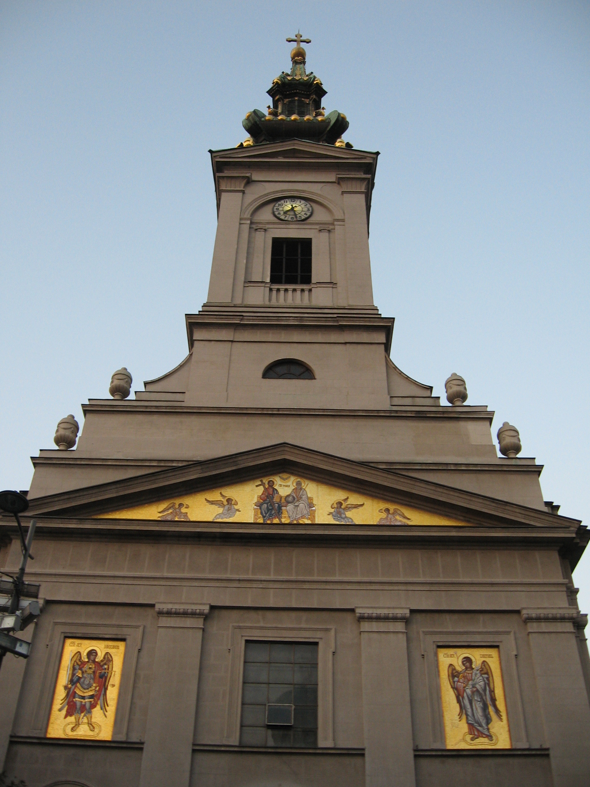 Beograd Cathedral